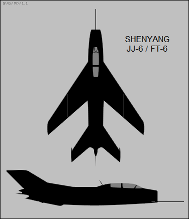 2-view silhouettes of the Shenyang JJ-6 (FT-6)